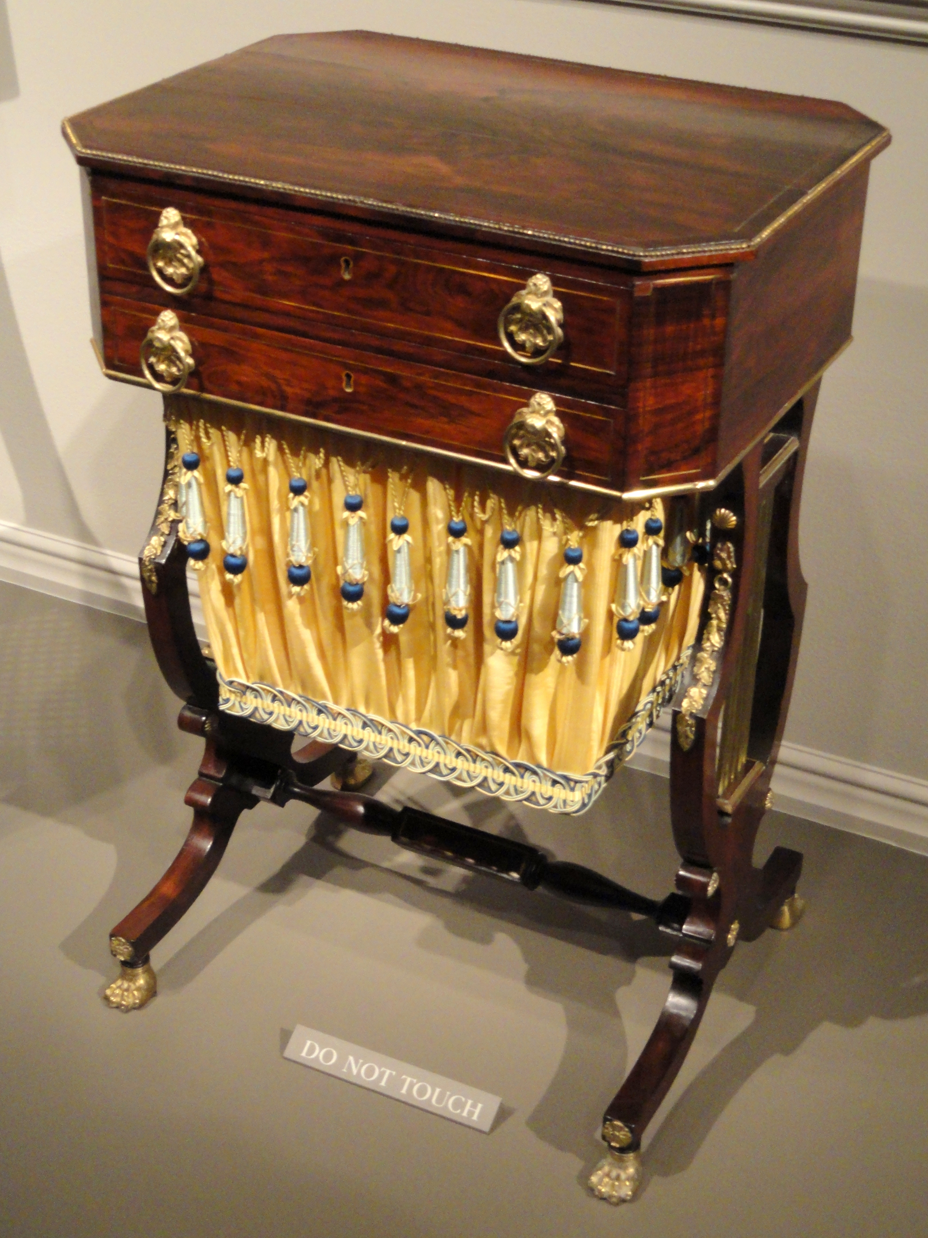 Furniture exhibited in the National Gallery of Art, Washington, DC, USA. This work is in the public domain because the maker(s) died more than 70 years ago.